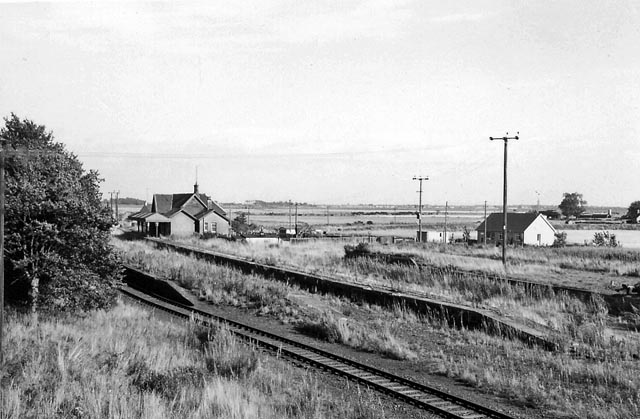 Bridge of Dun Station (remains). View eastward, towards Aberdeen; ex-Caledonian Perth - Aberdeen main line, junction of lines from Brechin and Forfar. The station was closed along with the main line on 4/9/67, the branches in 1952 (goods 1964). However, since 1993 the line has been restored from Brechin by the Heritage Caledonian Railway. (See Brechin SE2918 : St Peter & St Leonard - Northgate - Font and NO6060 : Brechin Station, frontage.